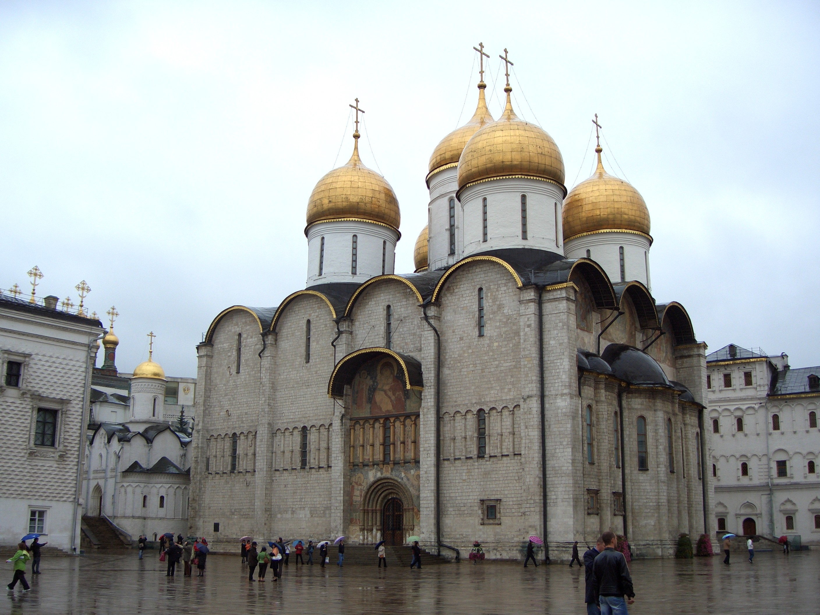 Moscow Kremlin Assumption Cathedral